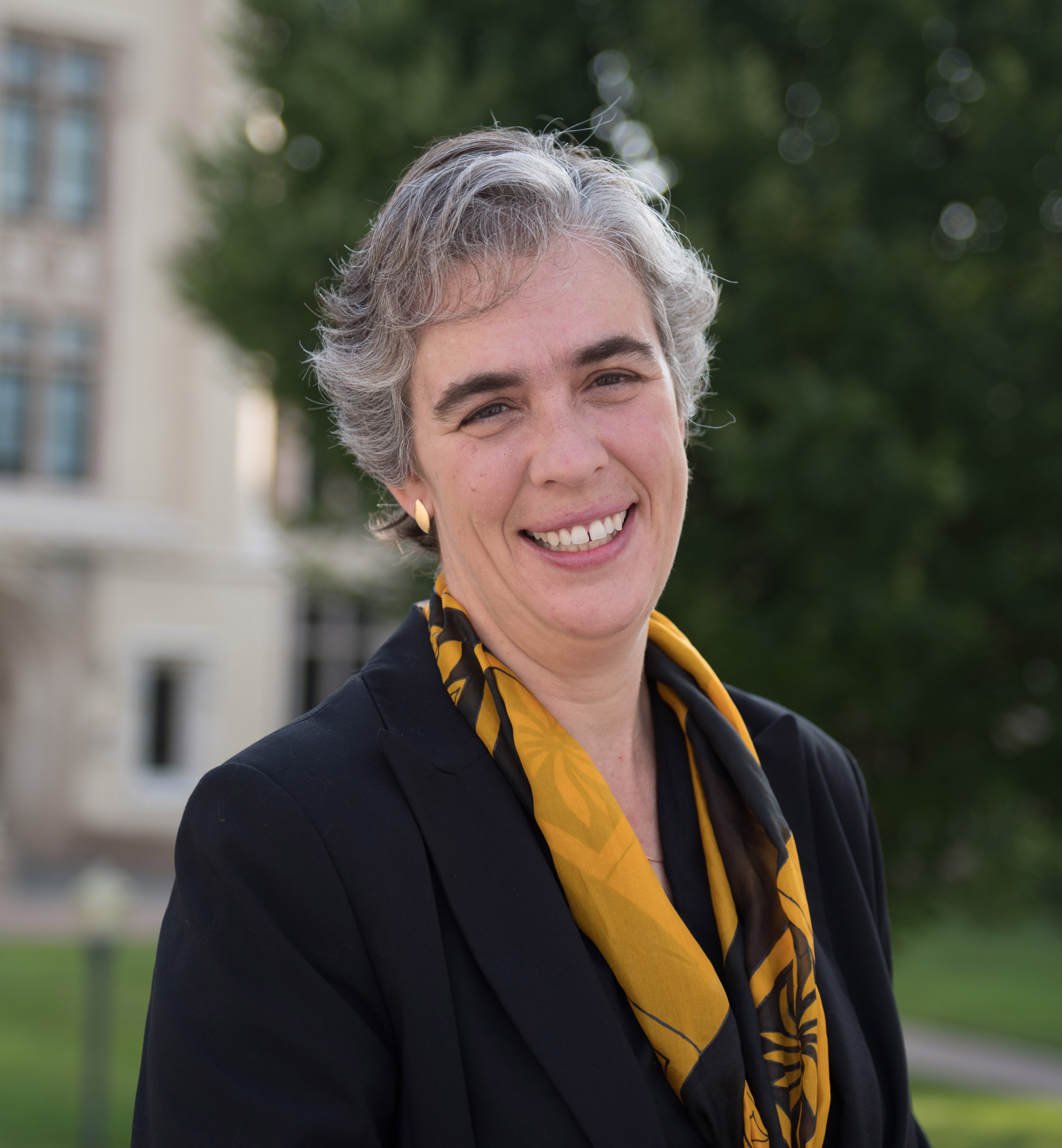 Sarah Bolton, President of The College of Wooster.